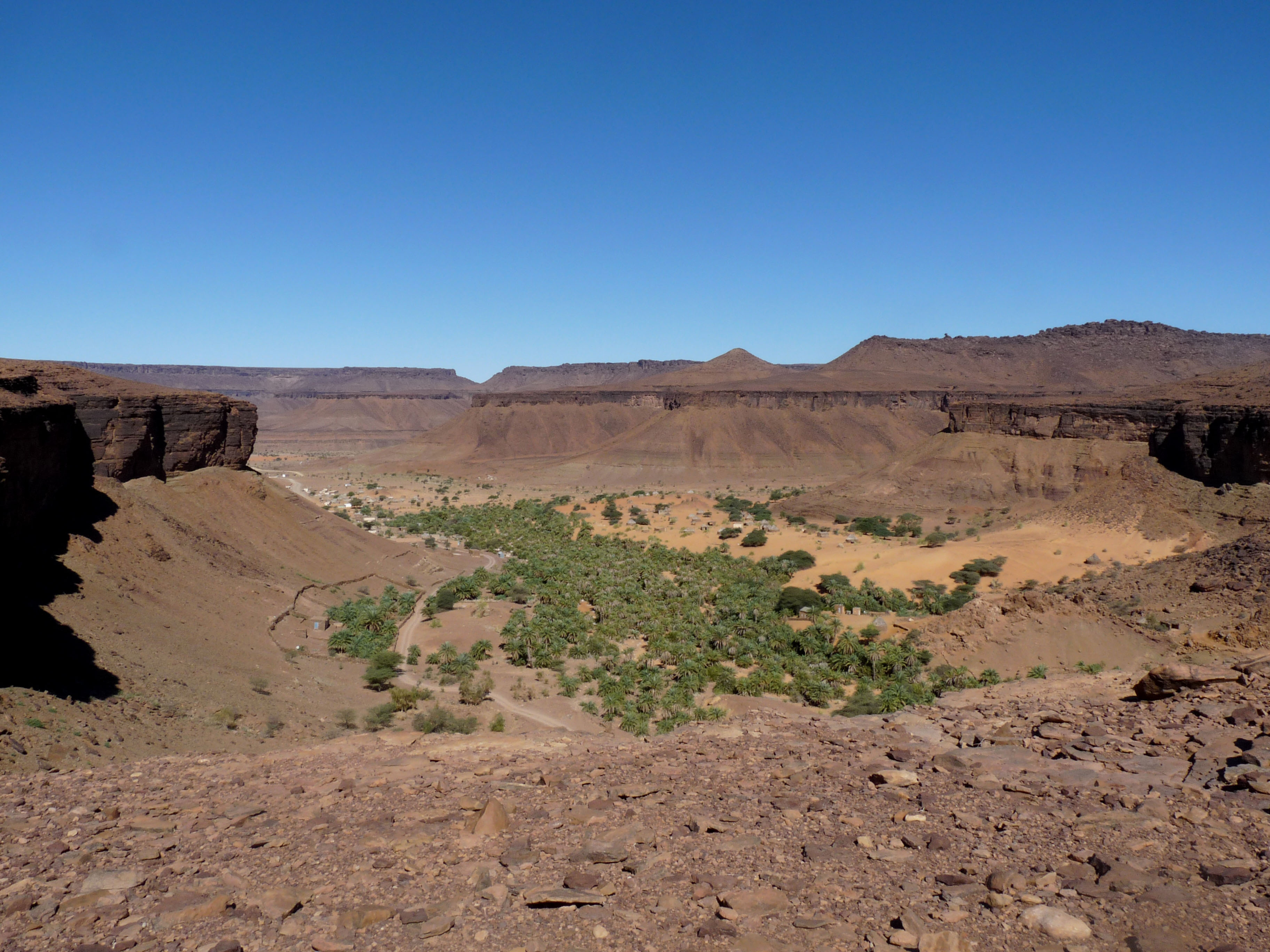 Oasis of Tergit (Adrar, Mauritania)